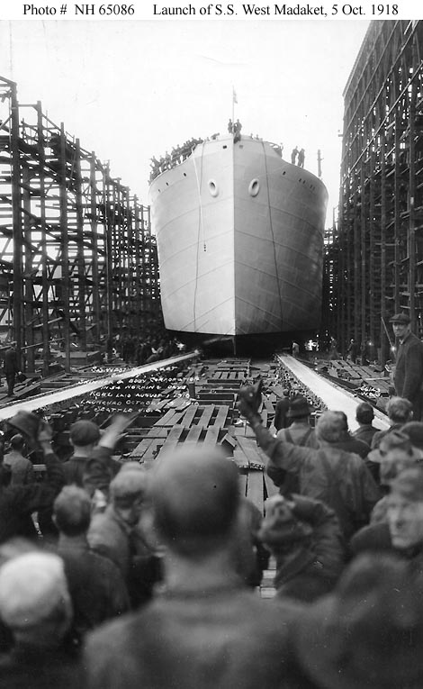 Commercial cargo ship SS West Madaket is launched at the Skinner and Eddy Corporation shipyard at Seattle, Washington. She later served as USS West Madaket (ID-3636)